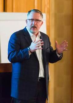 John Neeson, SiriusDecisions founder and managing director, speaks during SiriusDecisions Summit.